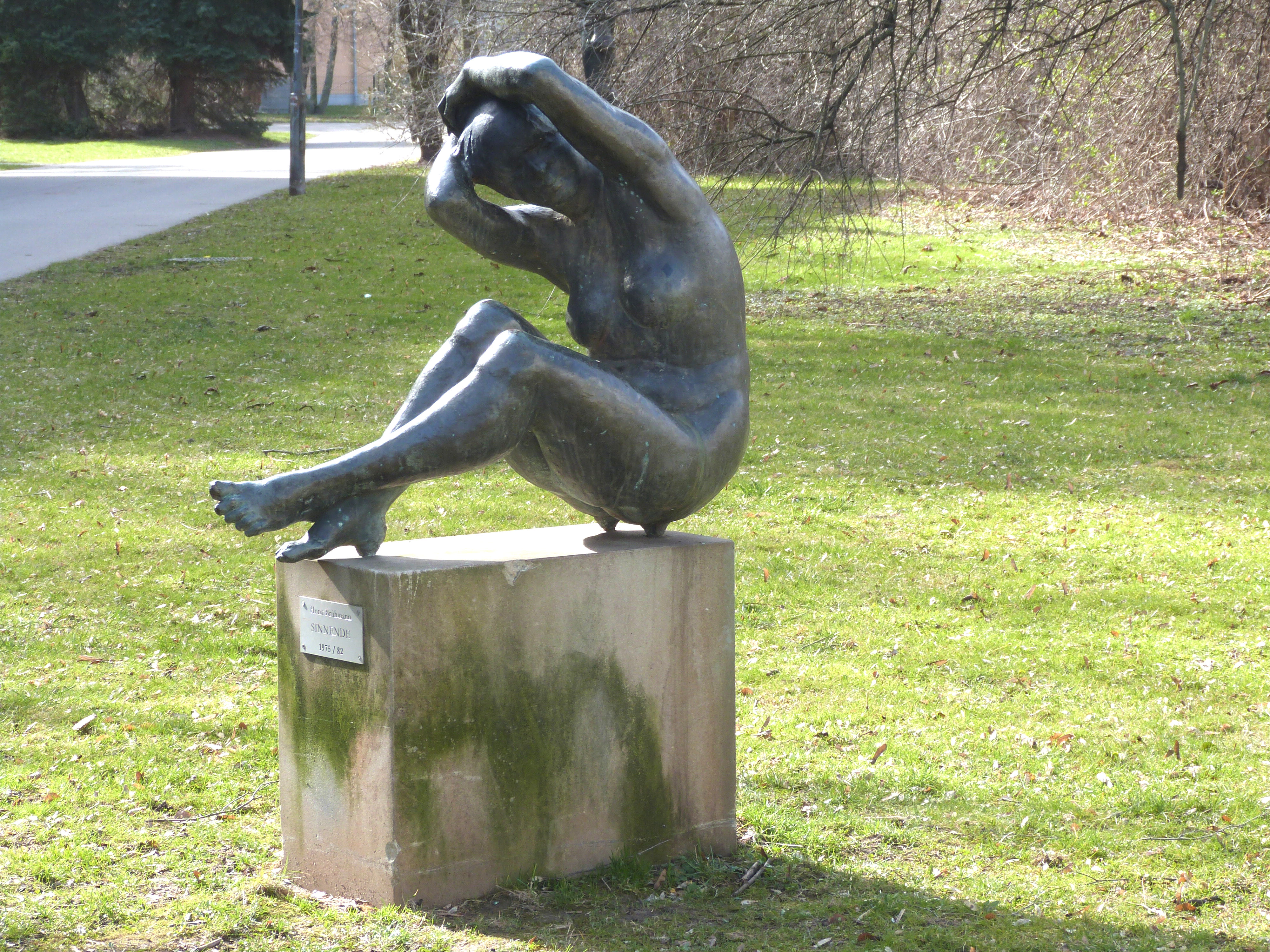 Bronze sculpture Sinnende of Horst Brühmann, 1975, Halle-Neustadt, Galerie im Grünen